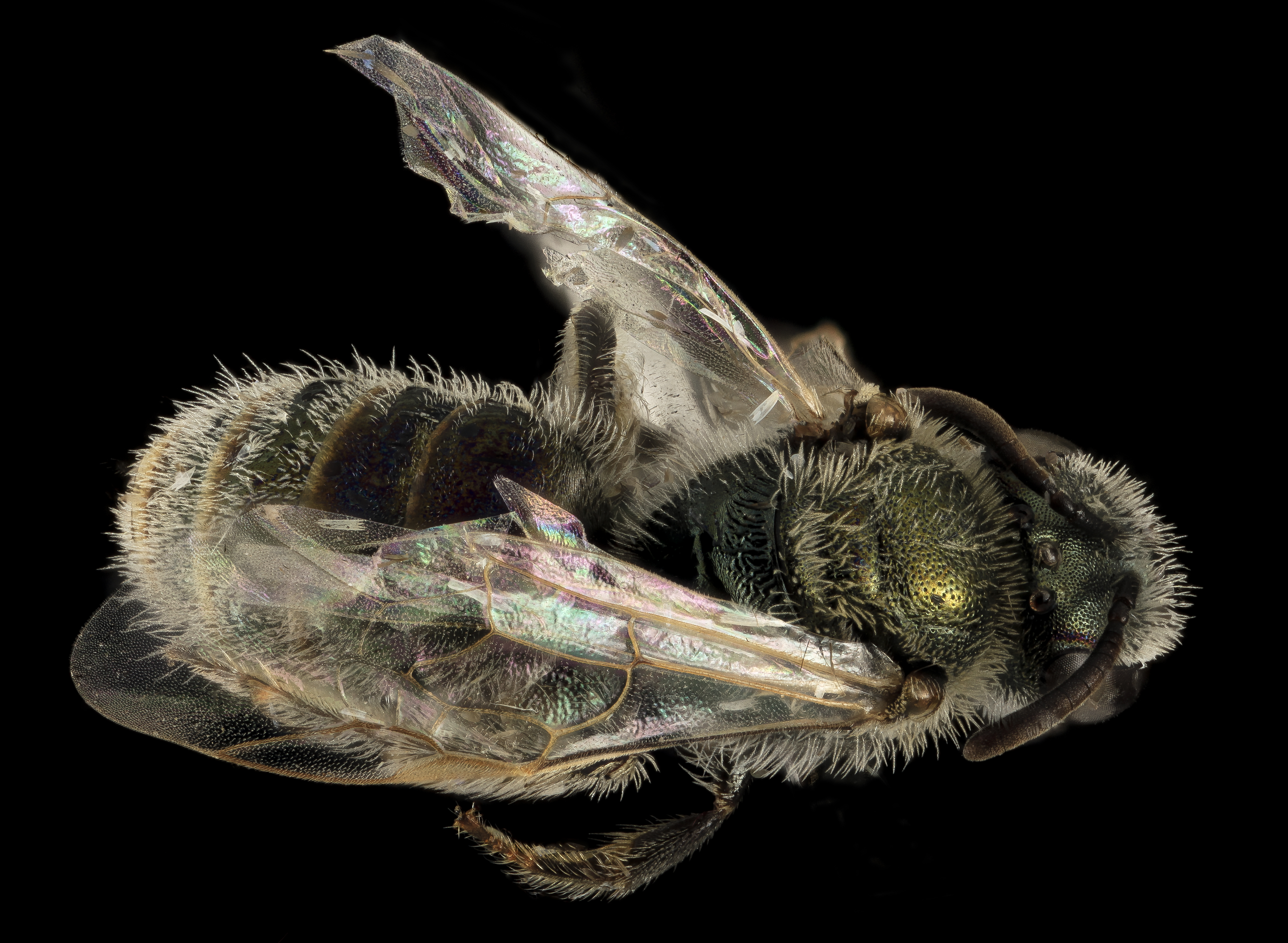 Even more Lasioglossum specimens, this one Lasioglossum albohirum, also from the fantastic be world of Fossil Butte National Monument in Wyoming. Photographed by Brooke Alexander. 03:03, 11 April 2016 (UTC)03:03, 11 April 2016 (UTC) 0 03:03, 11 April 2016 (UTC)03:03, 11 April 2016 (UTC) All photographs are public domain, feel free to download and use as you wish. Photography Information: Canon Mark II 5D, Zerene Stacker, Stackshot Sled, 65mm Canon MP-E 1-5X macro lens, Twin Macro Flash in Styrofoam Cooler, F5.0, ISO 100, Shutter Speed 200 Beauty is truth, truth beauty - that is all Ye know on earth and all ye need to know " Ode on a Grecian Urn" John Keats You can also follow us on Instagram account USGSBIML Want some Useful Links to the Techniques We Use? Well now here you go Citizen: Art Photo Book: Bees: An Up-Close Look at Pollinators Around the World Basic USGSBIML set up: USGSBIML Photoshopping Technique: Note that we now have added using the burn tool at 50% opacity set to shadows to clean up the halos that bleed into the black background from "hot" color sections of the picture. PDF of Basic USGSBIML Photography Set Up: ftp://ftpext.usgs.gov/pub/er/md/laurel/Droege/How%20to%20Take%20MacroPhotographs%20of%20Insects%20BIML%20Lab2.pdf Google Hangout Demonstration of Techniques: or Excellent Technical Form on Stacking: Contact information: Sam Droege 301 497 5840